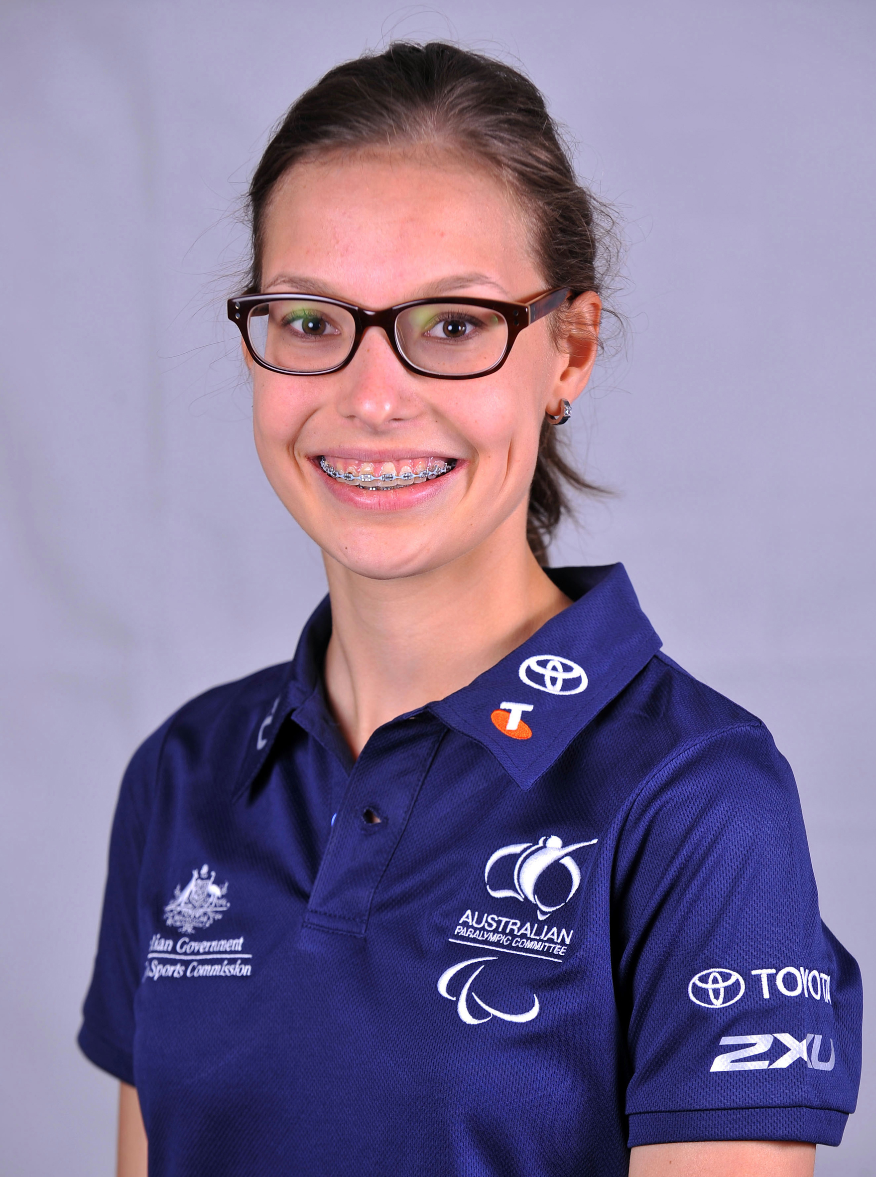 Portrait of Australian athlete Rachael Dodds, 2012 Australian Paralympic (shadow) Team athlete